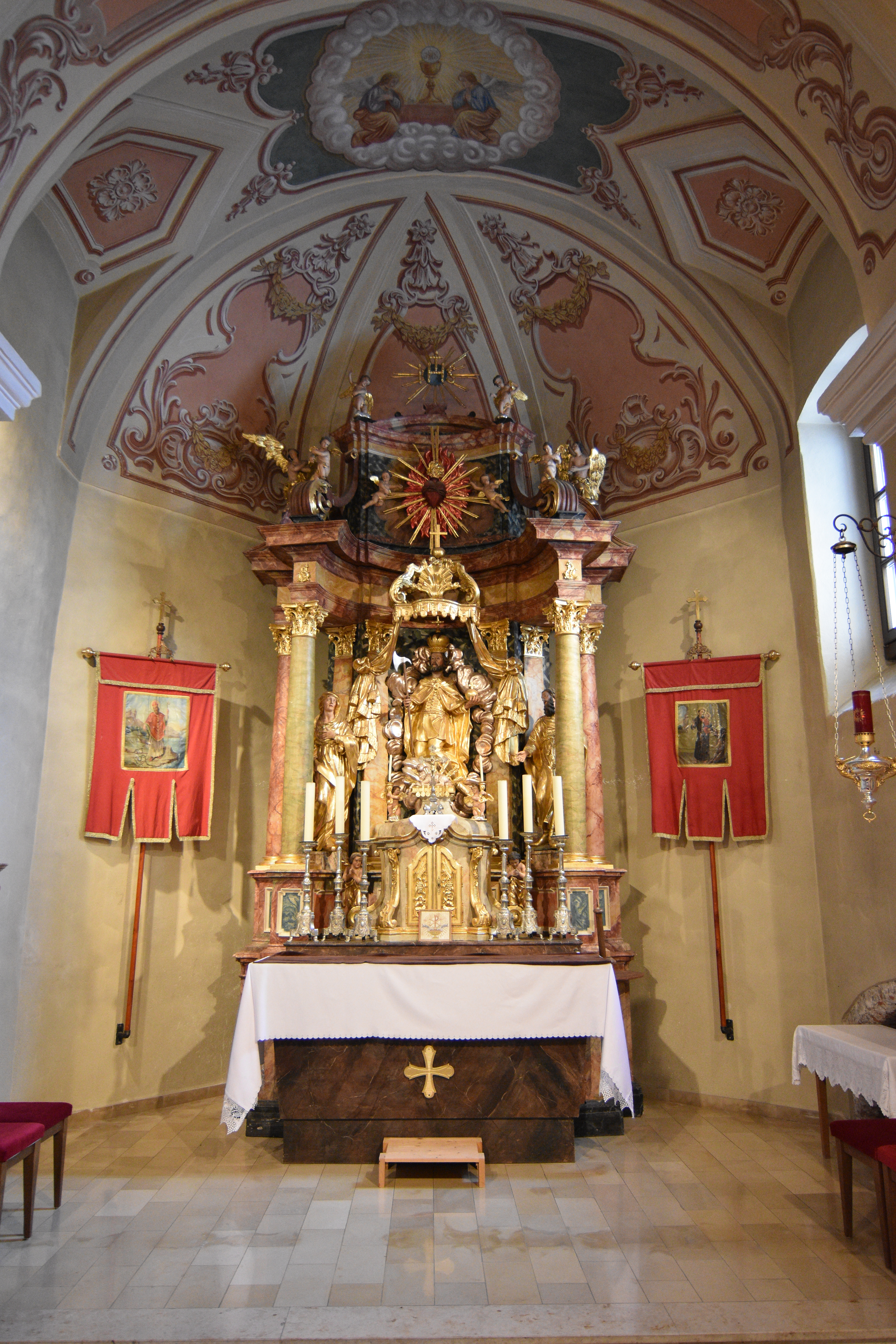 Church hl. Ladislaus, Mischendorf - Interior